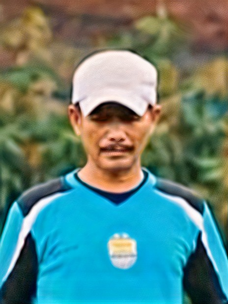 Cropped photograph of Djadjang Nurdjaman during an open training session.